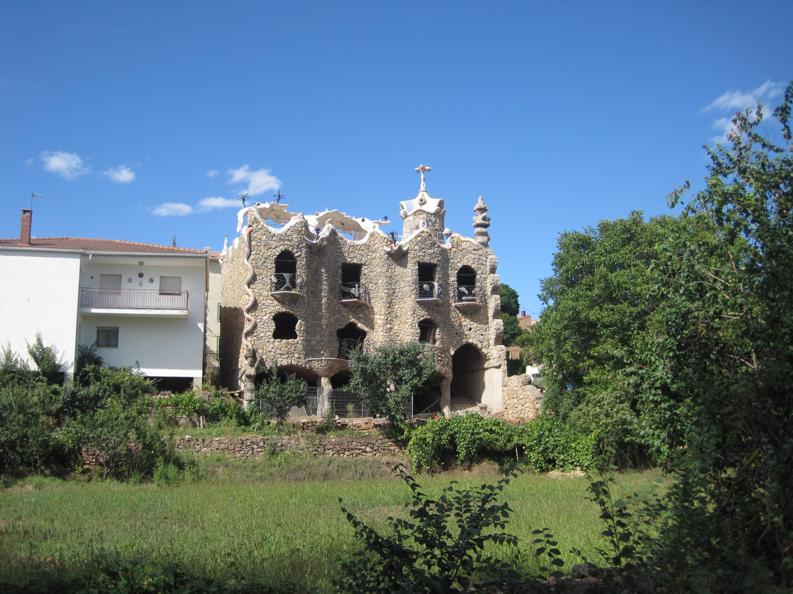 El Capricho Rillano is a new building in Rillo de Gallo, Guadalajara, Spain.